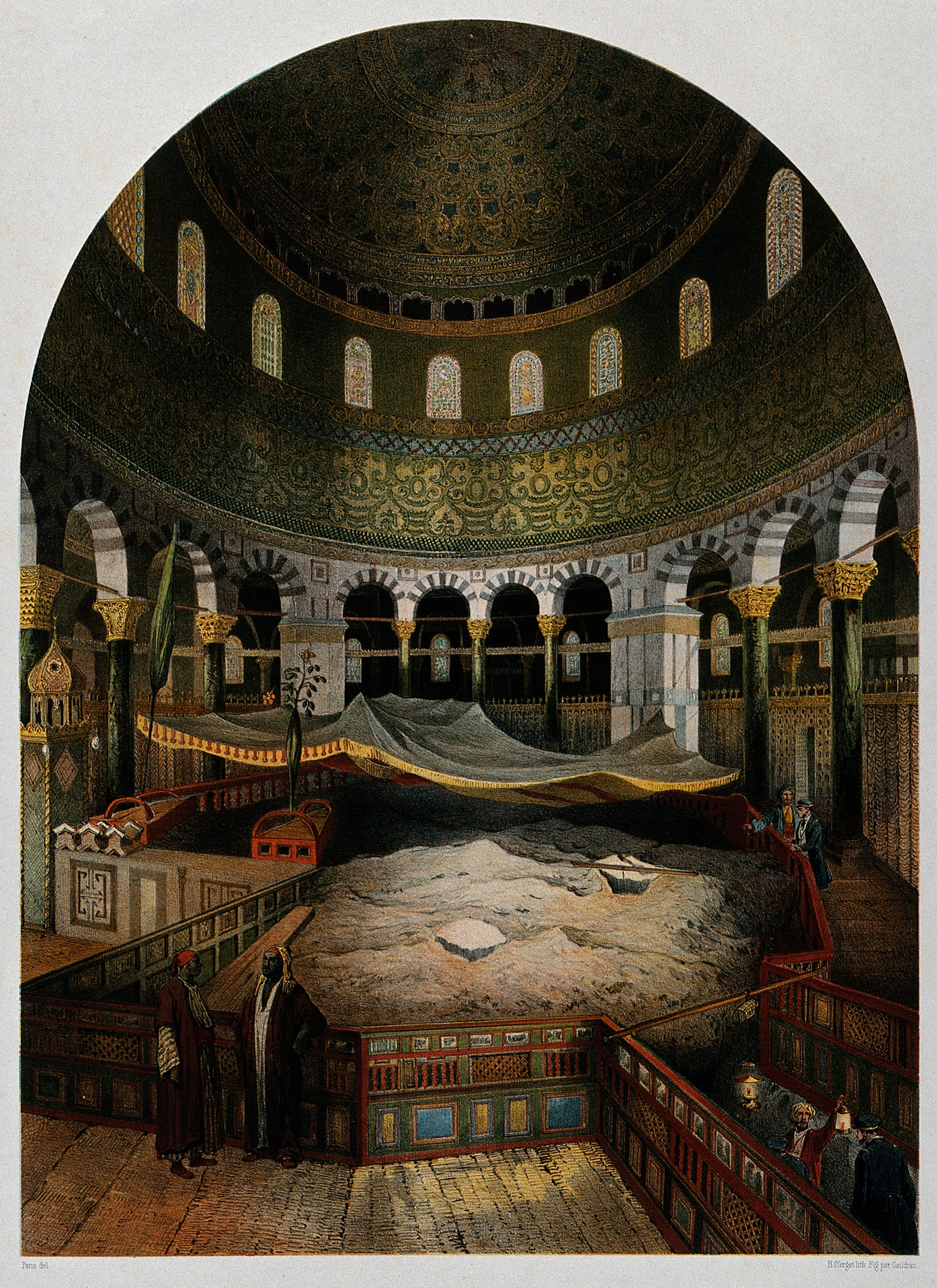 Dome of the Rock in the Mosque of Omar, Jerusalem. Chromolithograph by H. Clerget and J. Gaildrau after Francois Edmond Pâris, 1862. Iconographic Collections Keywords: Hubert Clergert; Jules Gaildrau; Francois Edmond Pâris